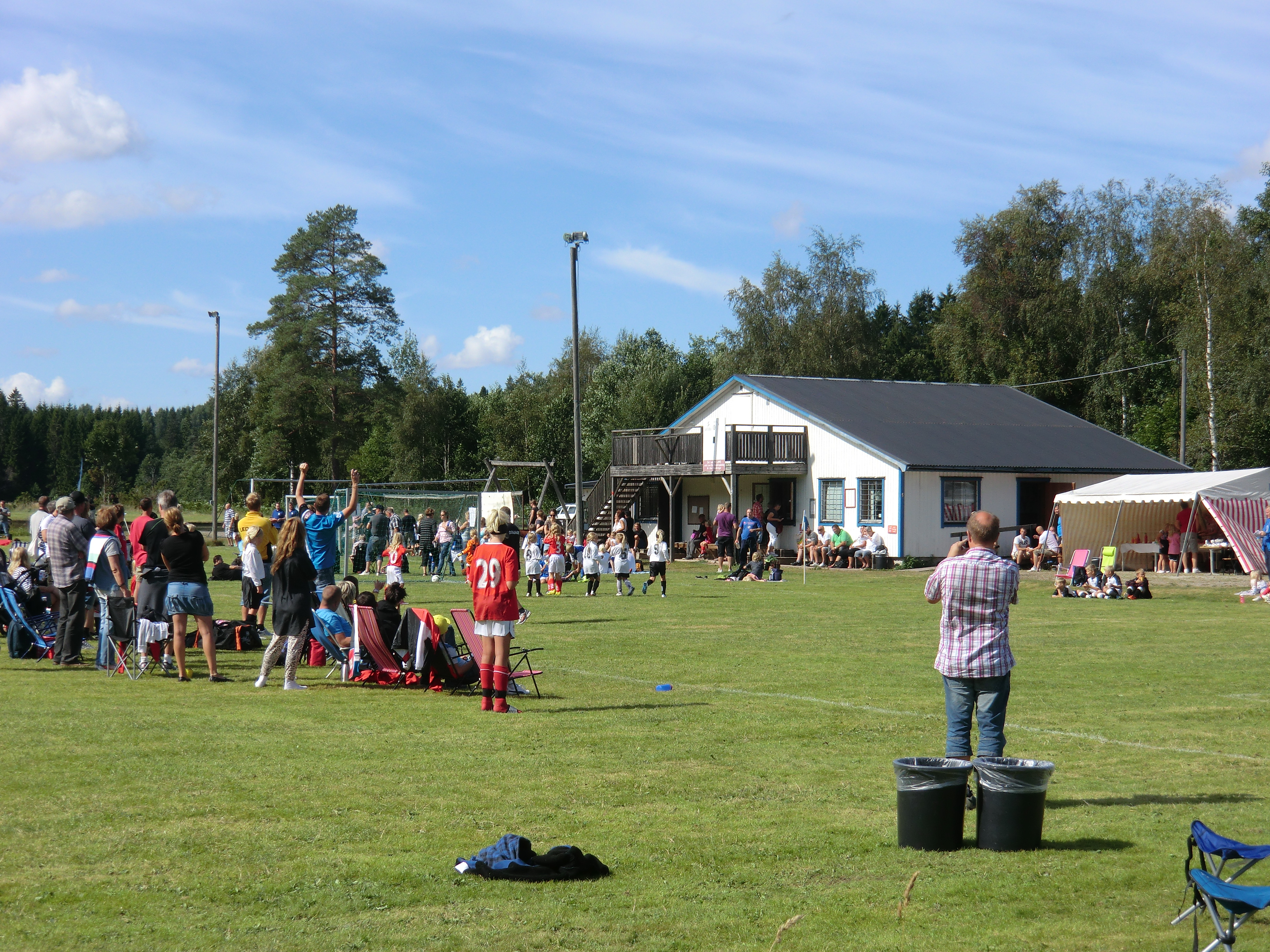 The soccer competition Lanebollen at Signeröd arena